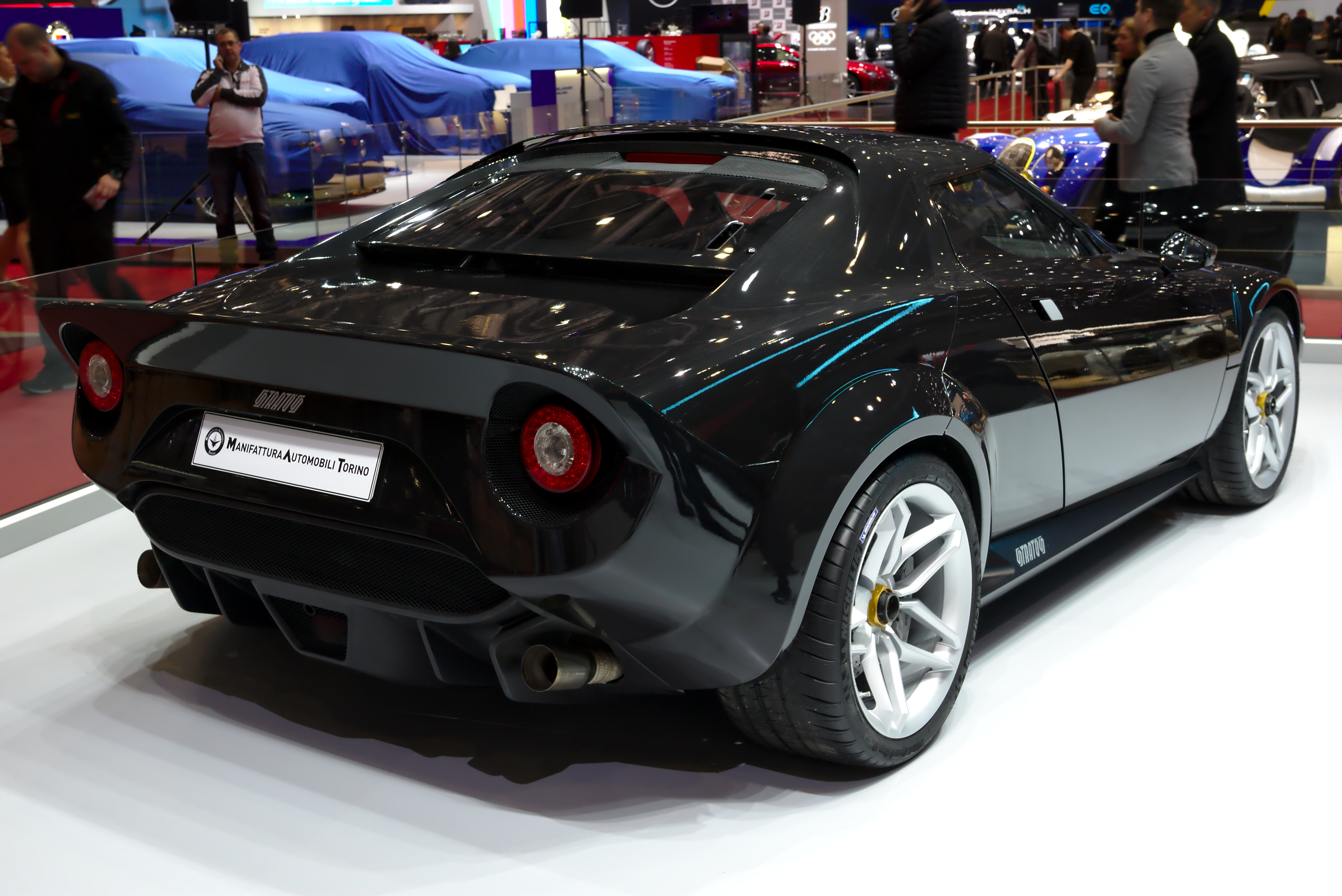 New Stratos at Geneva Motor Show 2018